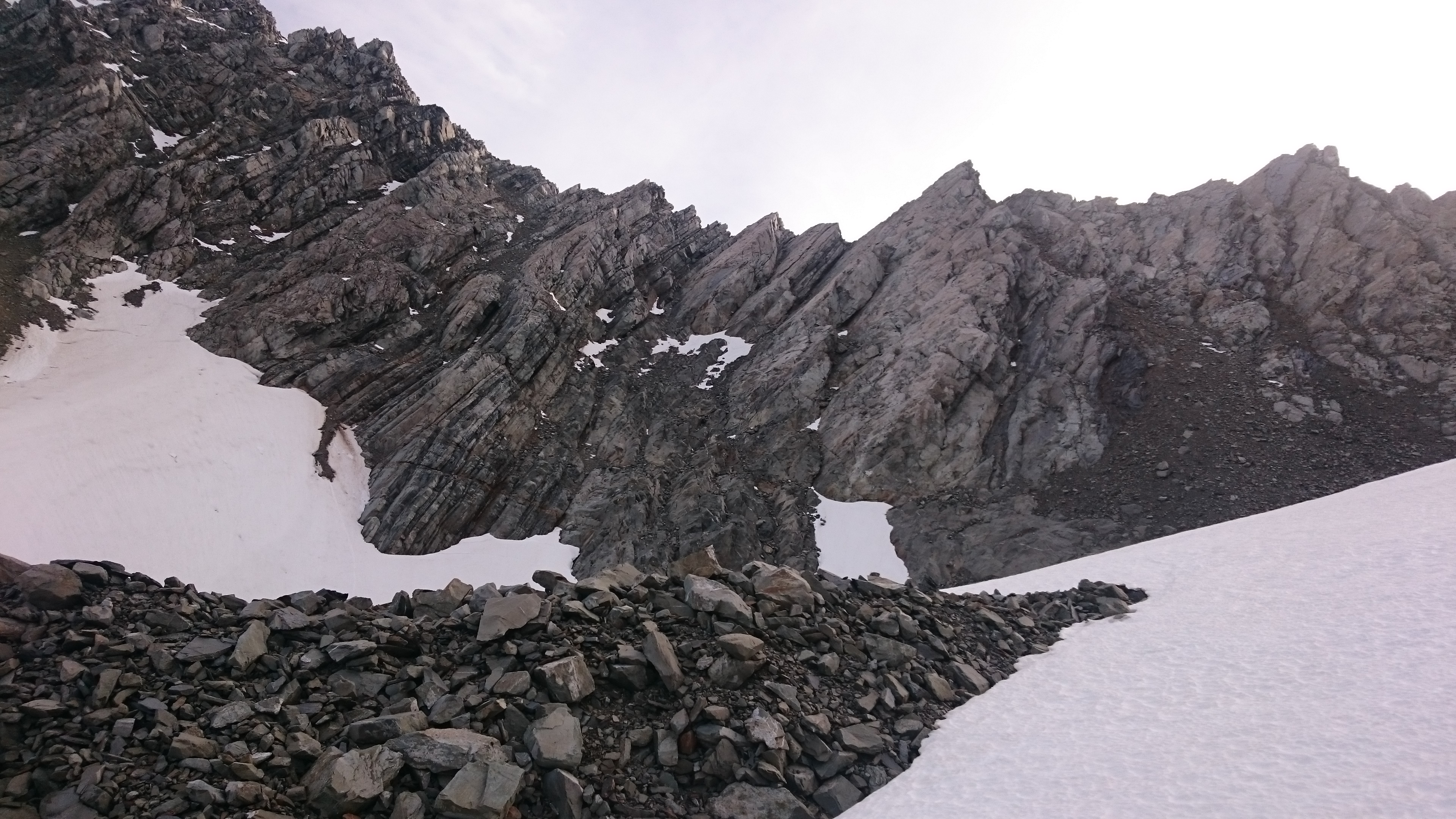 The western side of the Copland Pass. Use any of these notches to get across.